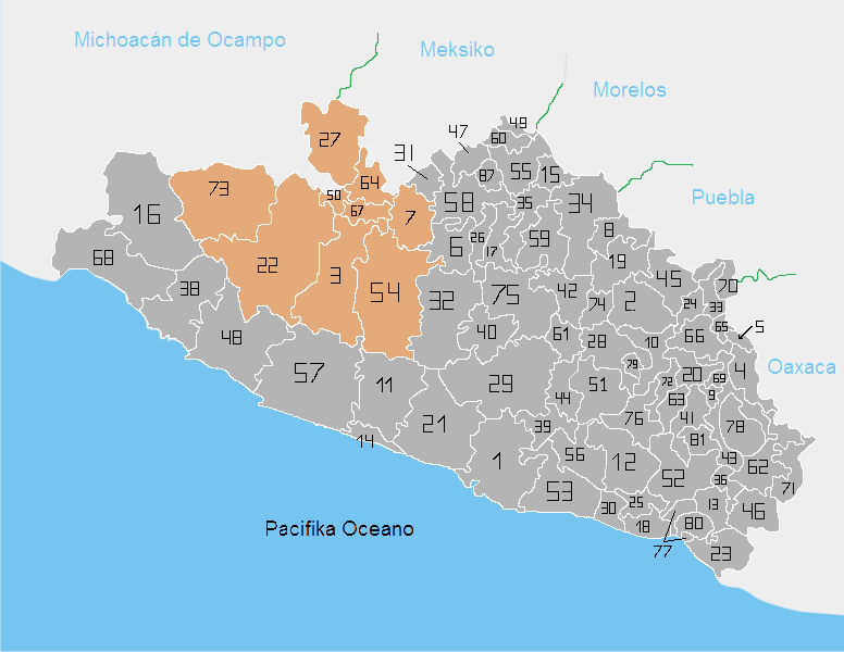 locator map of the region "Tierra Caliente" in the mexico state Guerrero